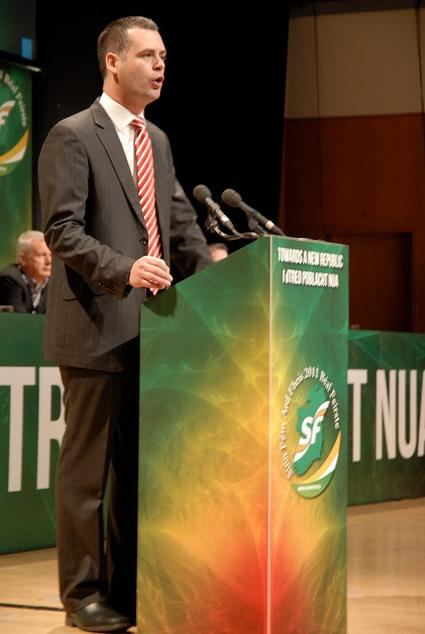 Pearse Doherty TD speaking at the 2011 Sinn Féin Ardfheis in Belfast